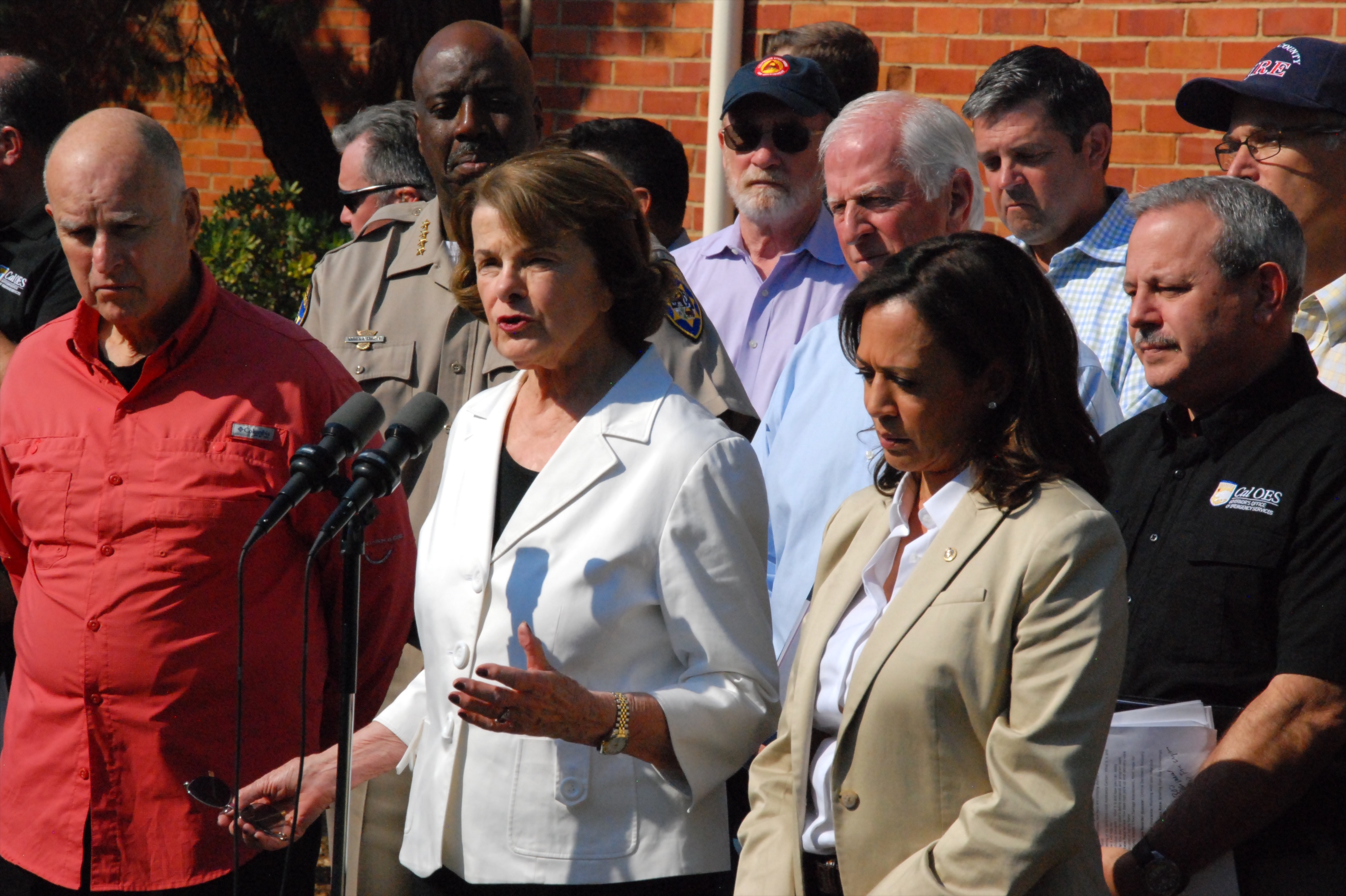 U.S. Sen. Diane Feinstein addressed the media during a press conference in Santa Rosa on Oct. 14, 2017. (Army National Guard photo by Capt. Will Martin/Released).